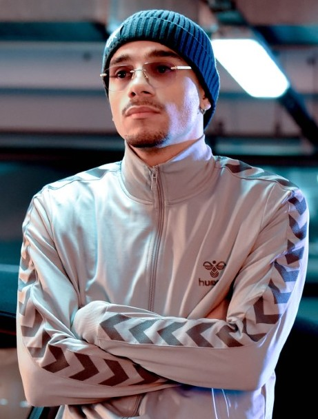 French actor and musician Mister V is leaning against a car during a video shoot.